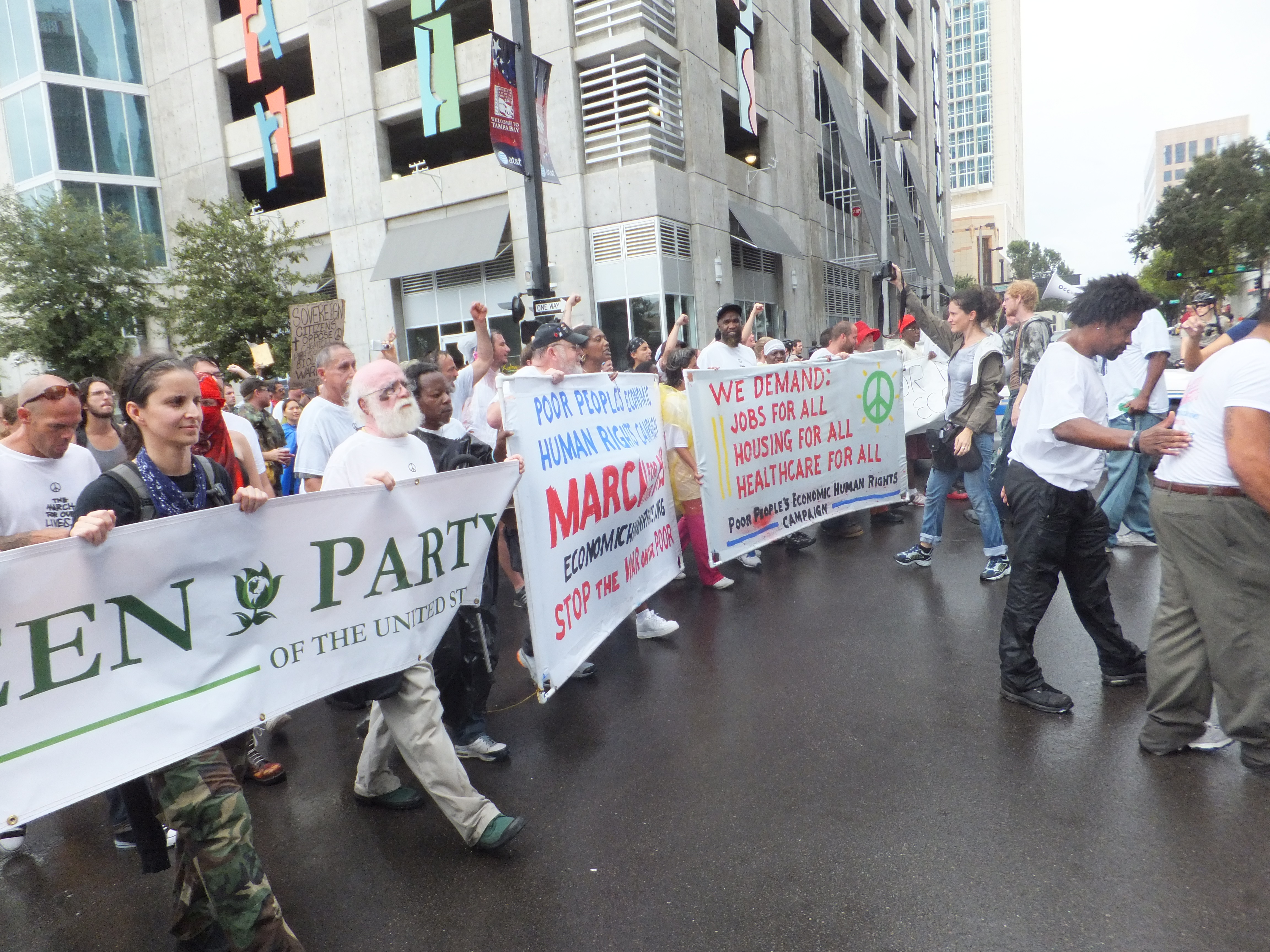 Tampa RNC August 2012 026.